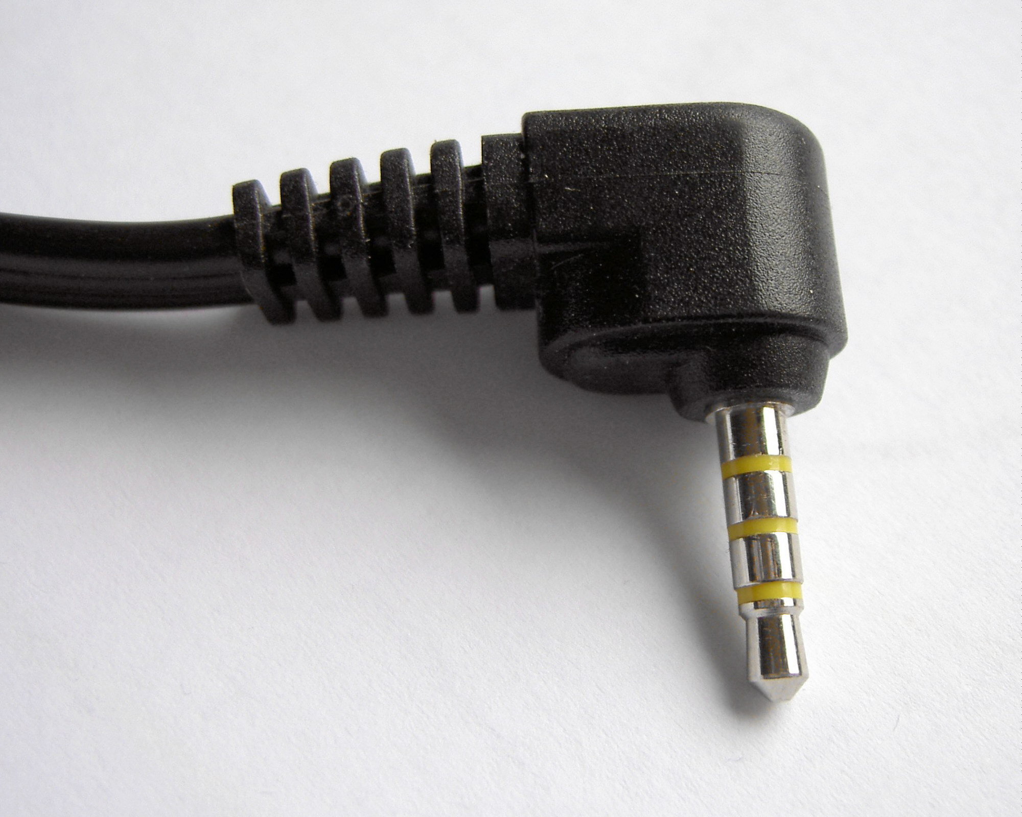 Jack plug